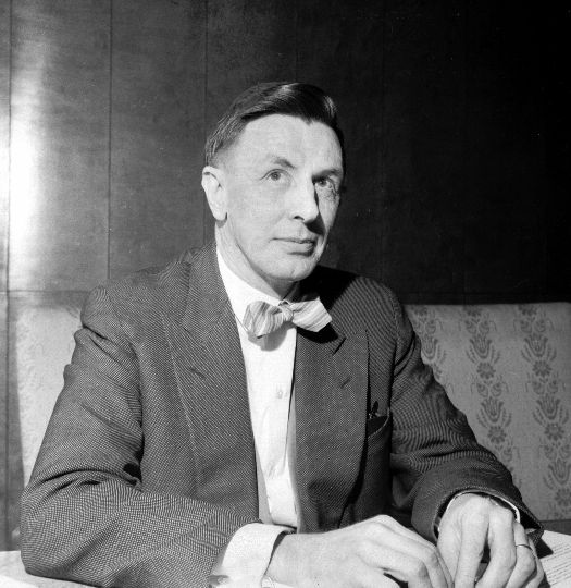 Photograph of the Finnish mineralogist Risto Hukki (1914–1988).